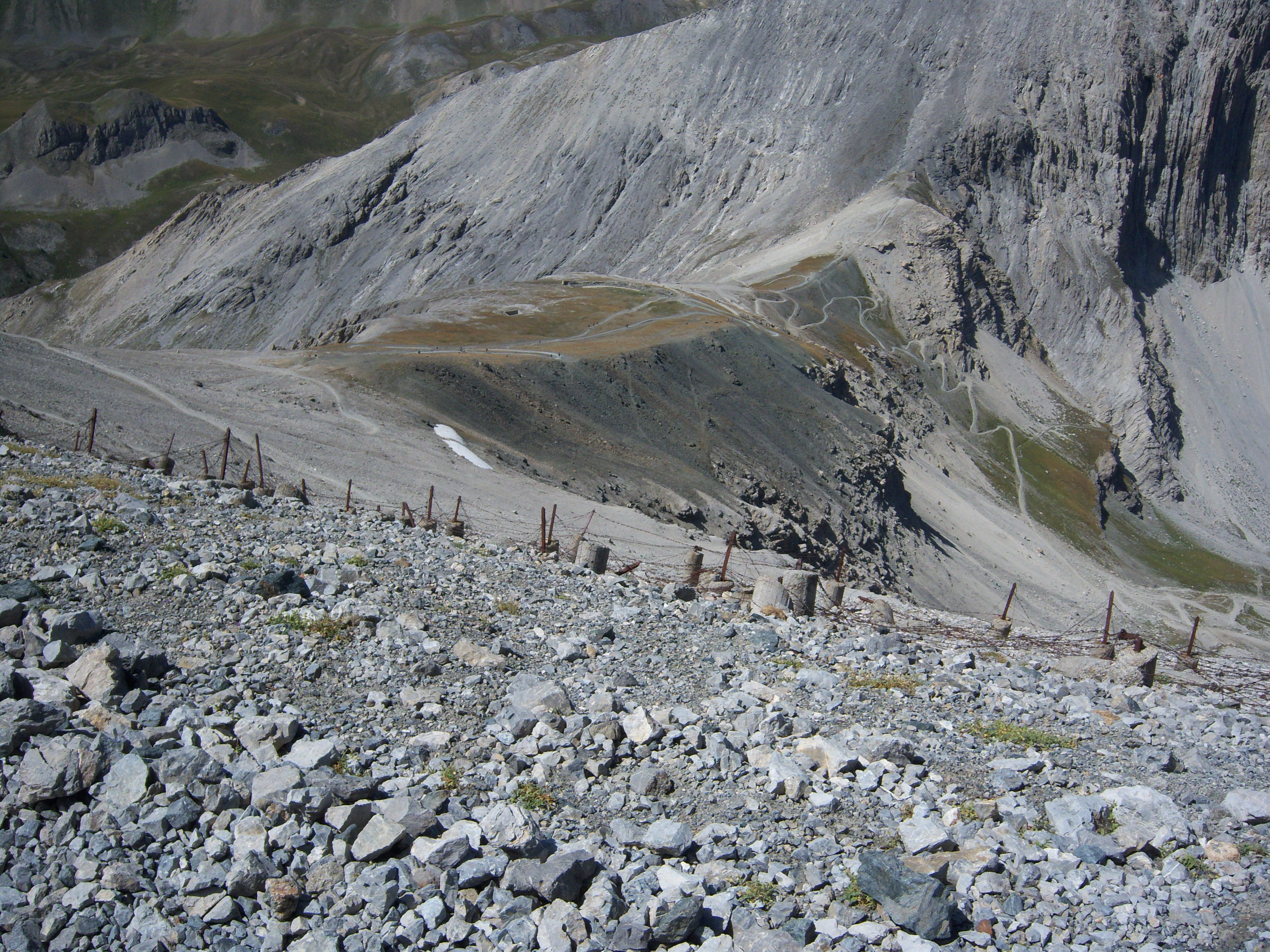 The Colle Chaberton from the road of Chaberton